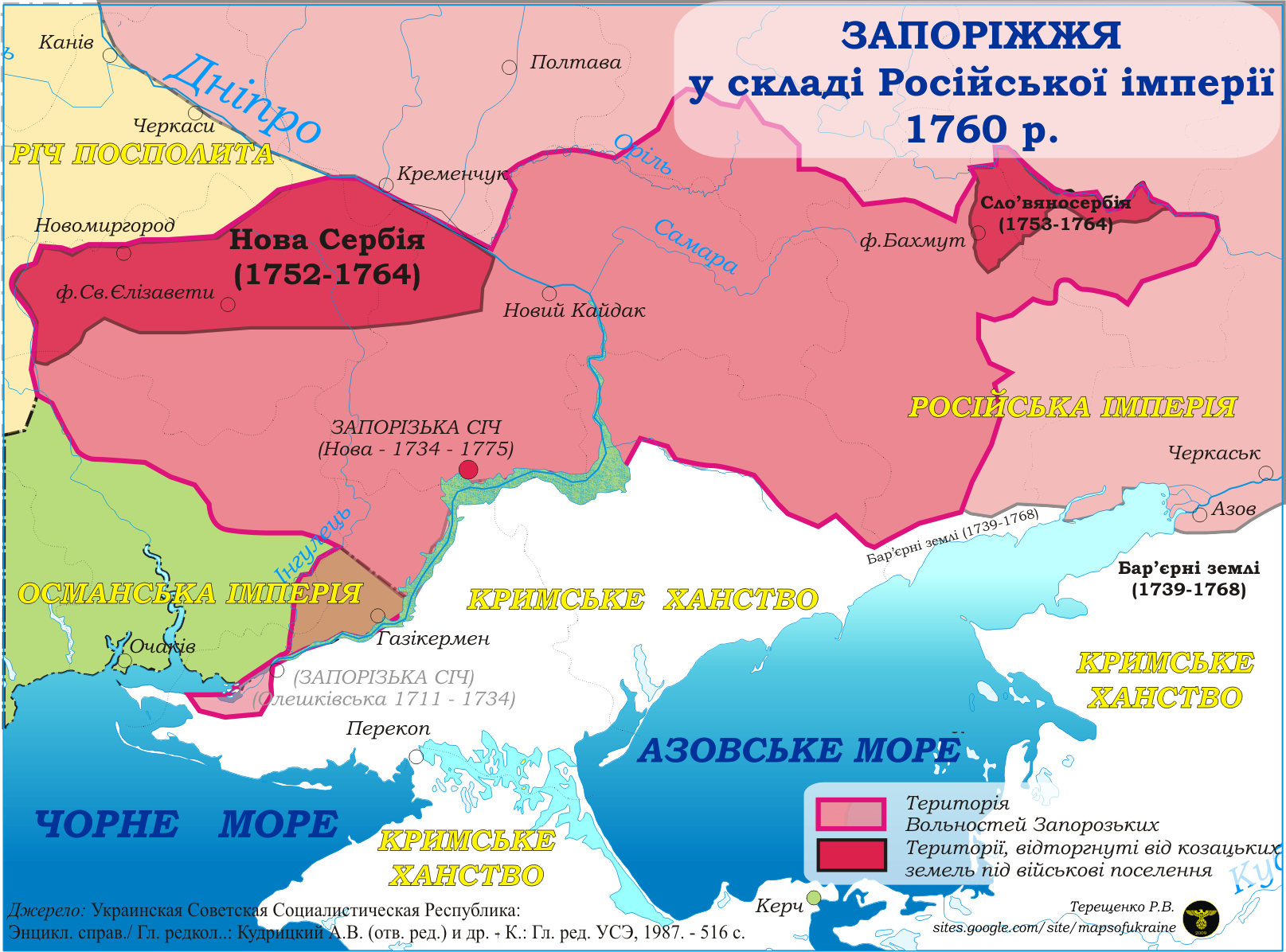 Land of Zaporozhye in the Russian Empire in 1760